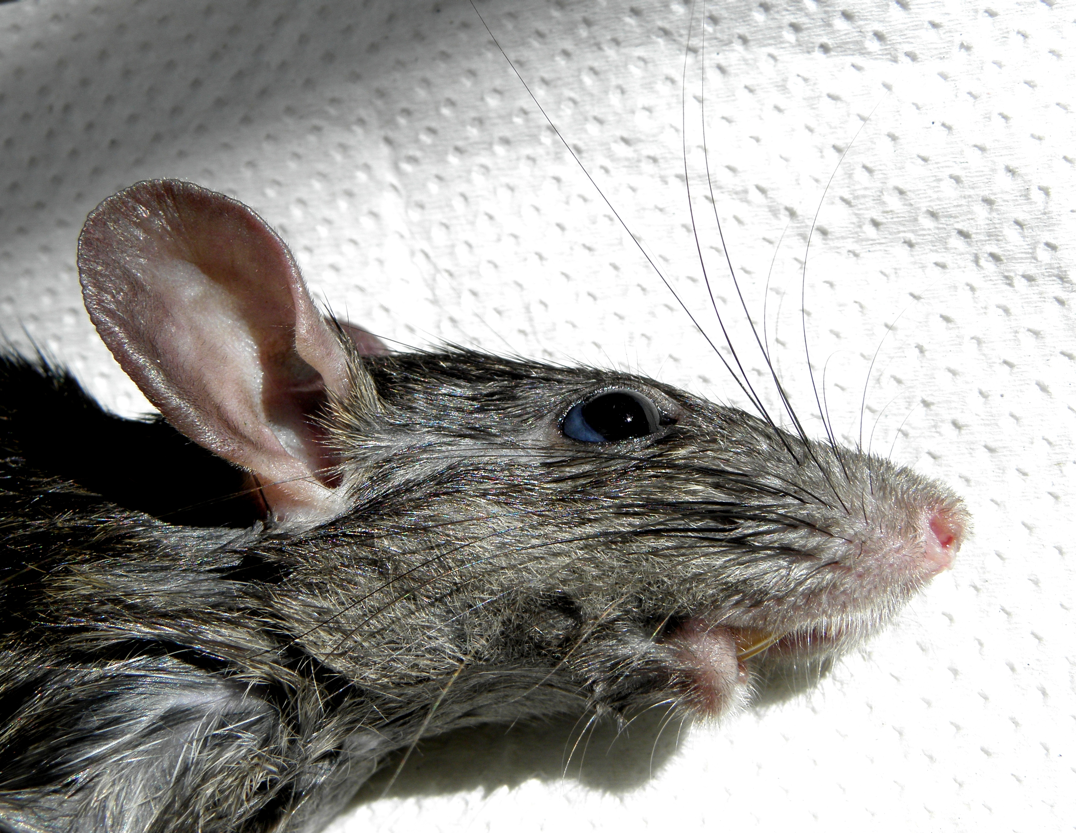 Side view of the head of Black Rat (Rattus rattus).